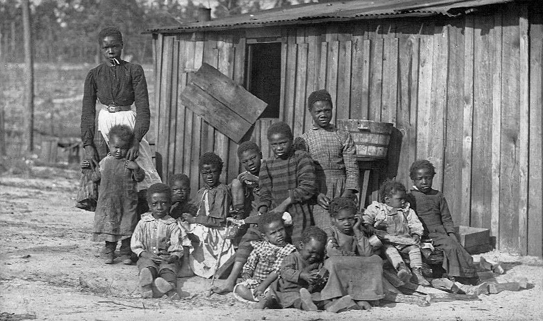 African American group of twelve children and a woman in front of a shack during the first decade of the 20th century.